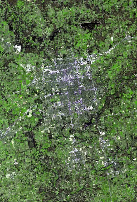 The raw satellite imagery shown in these images was obtain from NASA and/or the US Geological Survey. Post-processing and production by